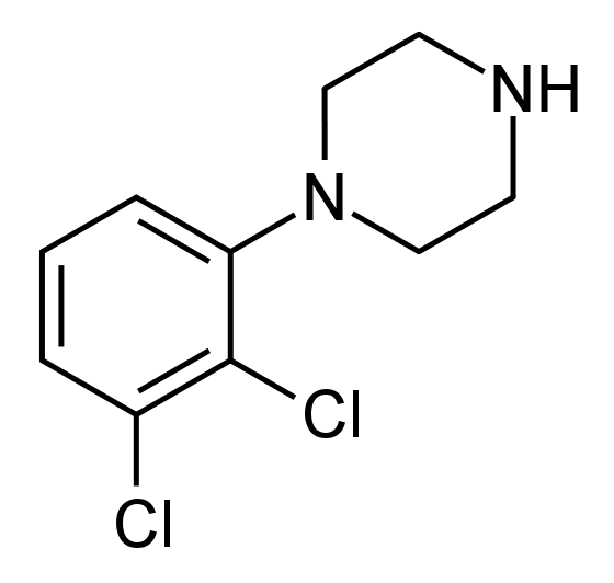 Skeletal formula of dichlorophenylpiperazine